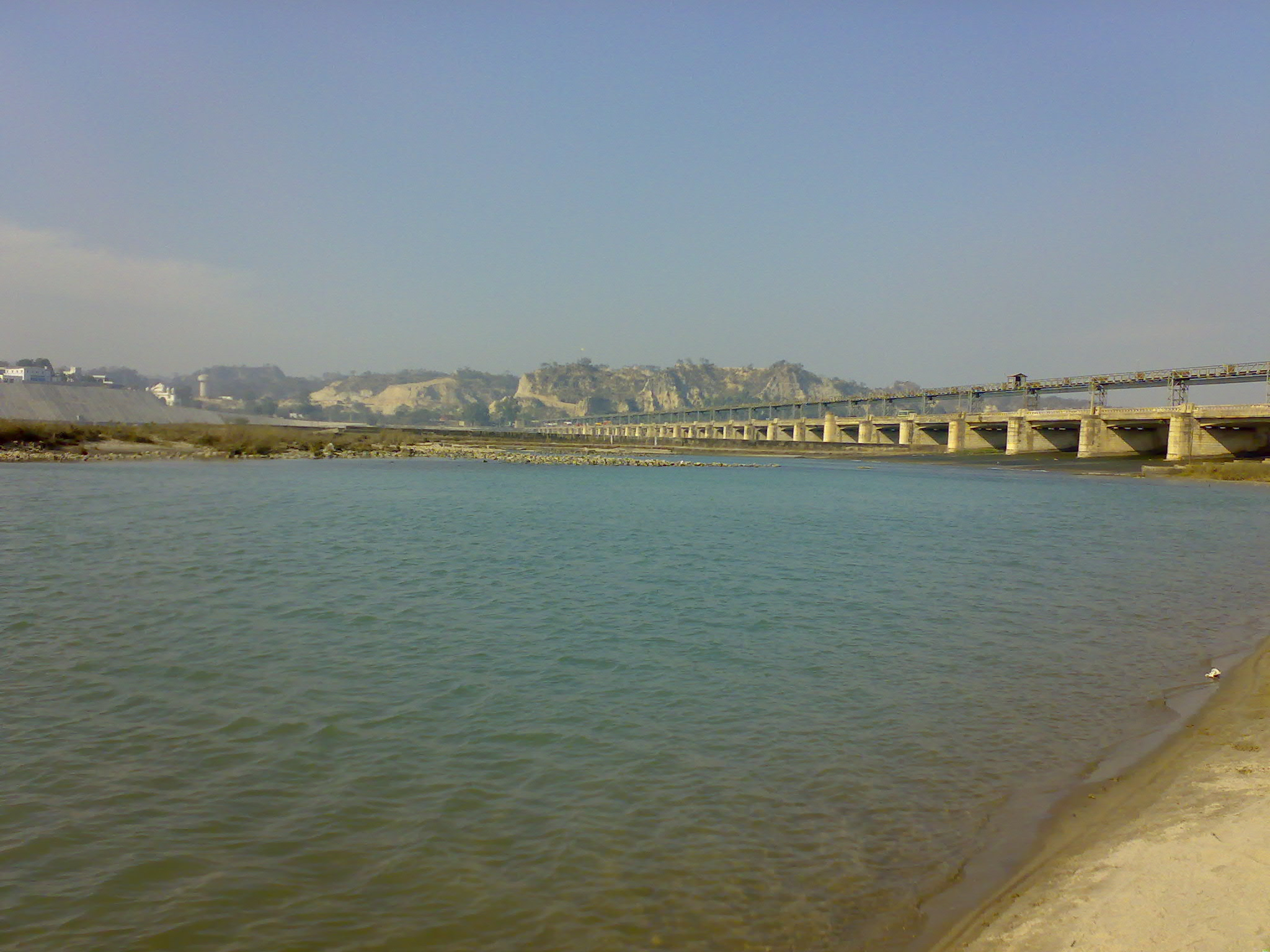 Satluj, just passing the Ropar Bridge Sutlej River